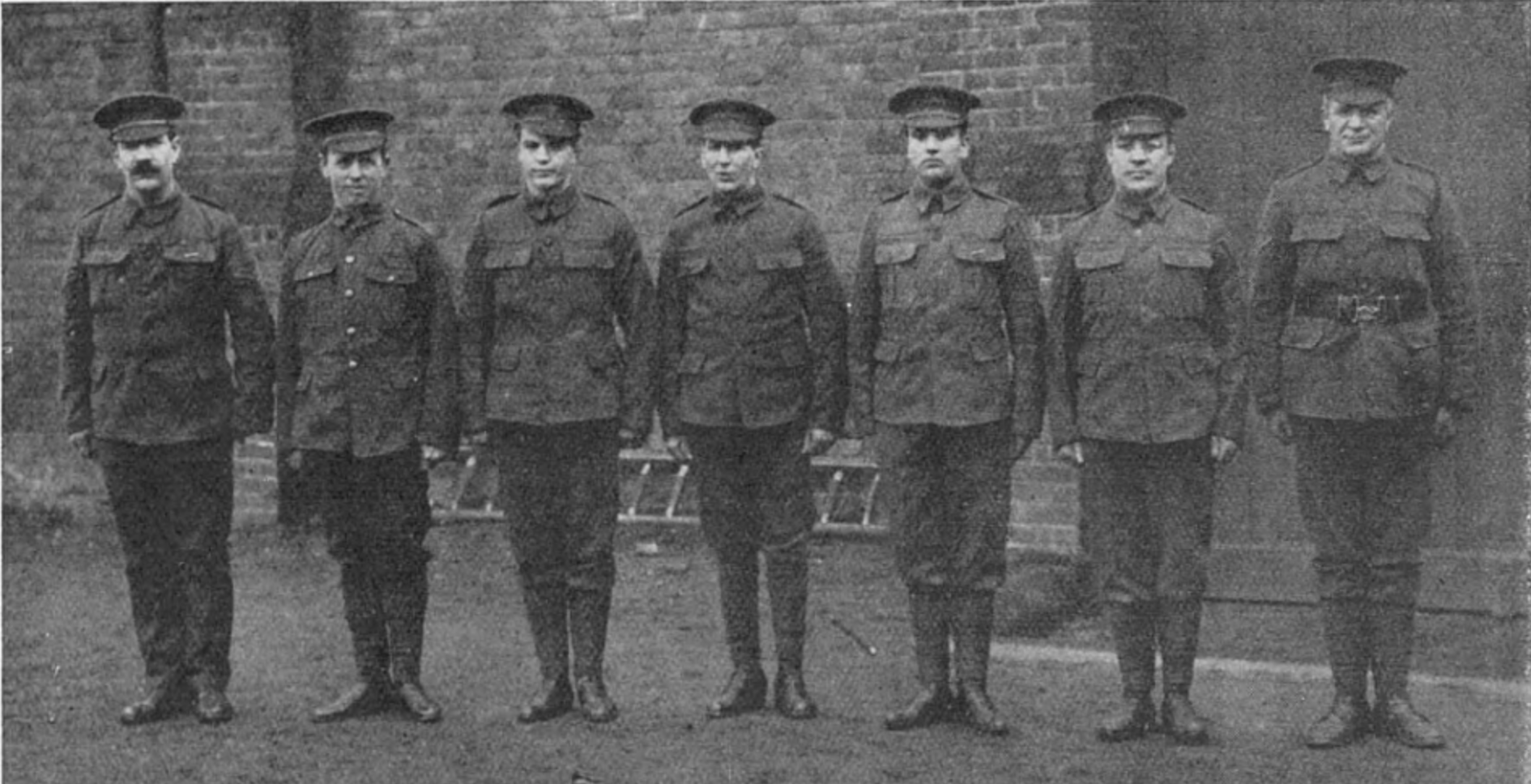 From the ring to the trench. Prominent boxers who have joined the Colours. From Left to right: Sergeant Taylor, Dick Burge, Dai Roberts, Duke Lynch, W.W. Turner, Jack Goldswain and L/CPL Pat O'Keeffe